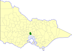 Location of the Shire of Romsey within Victoria.